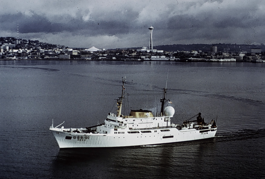 NOAAS Oceanographer (R 101), originally USC&GS Oceanographer (OSS O1), an oceanographic research vessel in service in the United States Coast and Geodetic Survey from 1966 to 1970 and in the National Oceanic and Atmospheric Administration (NOAA) from 1970 to 1996.